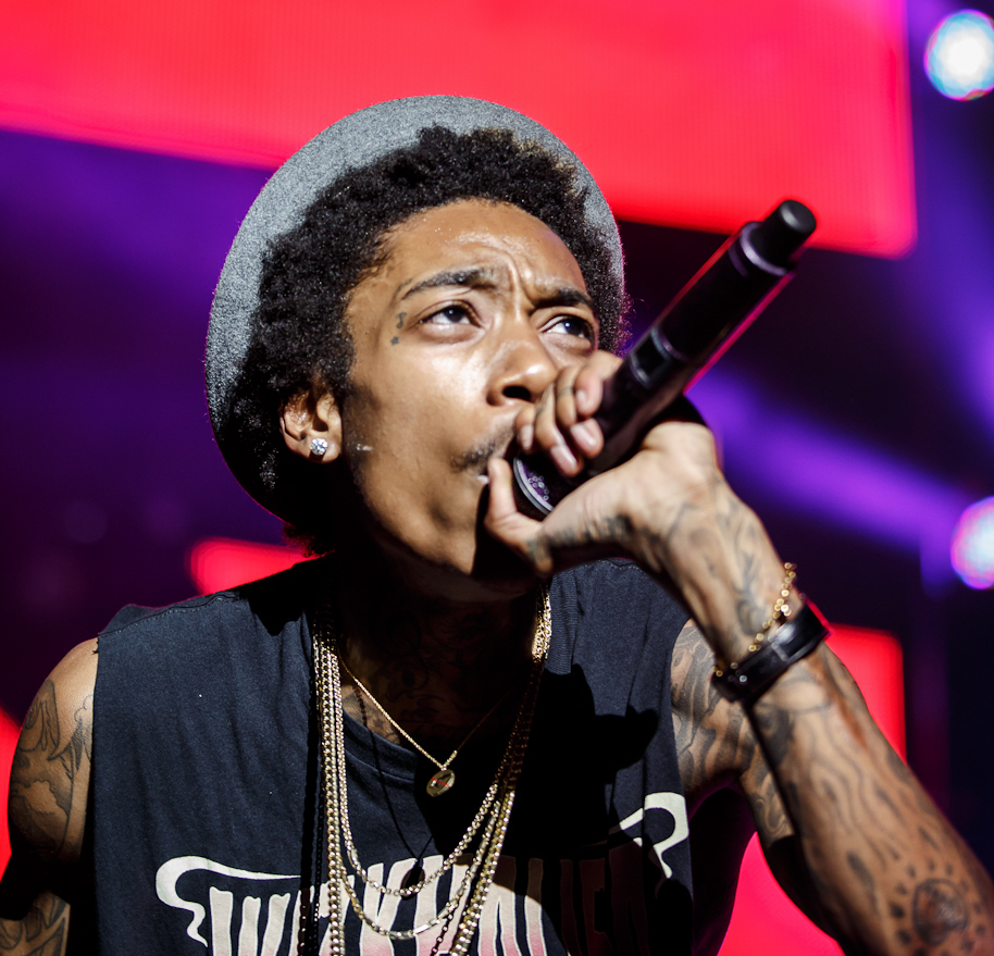 Wiz Khalifa in Under The Influence Tour 2012 in Toronto.